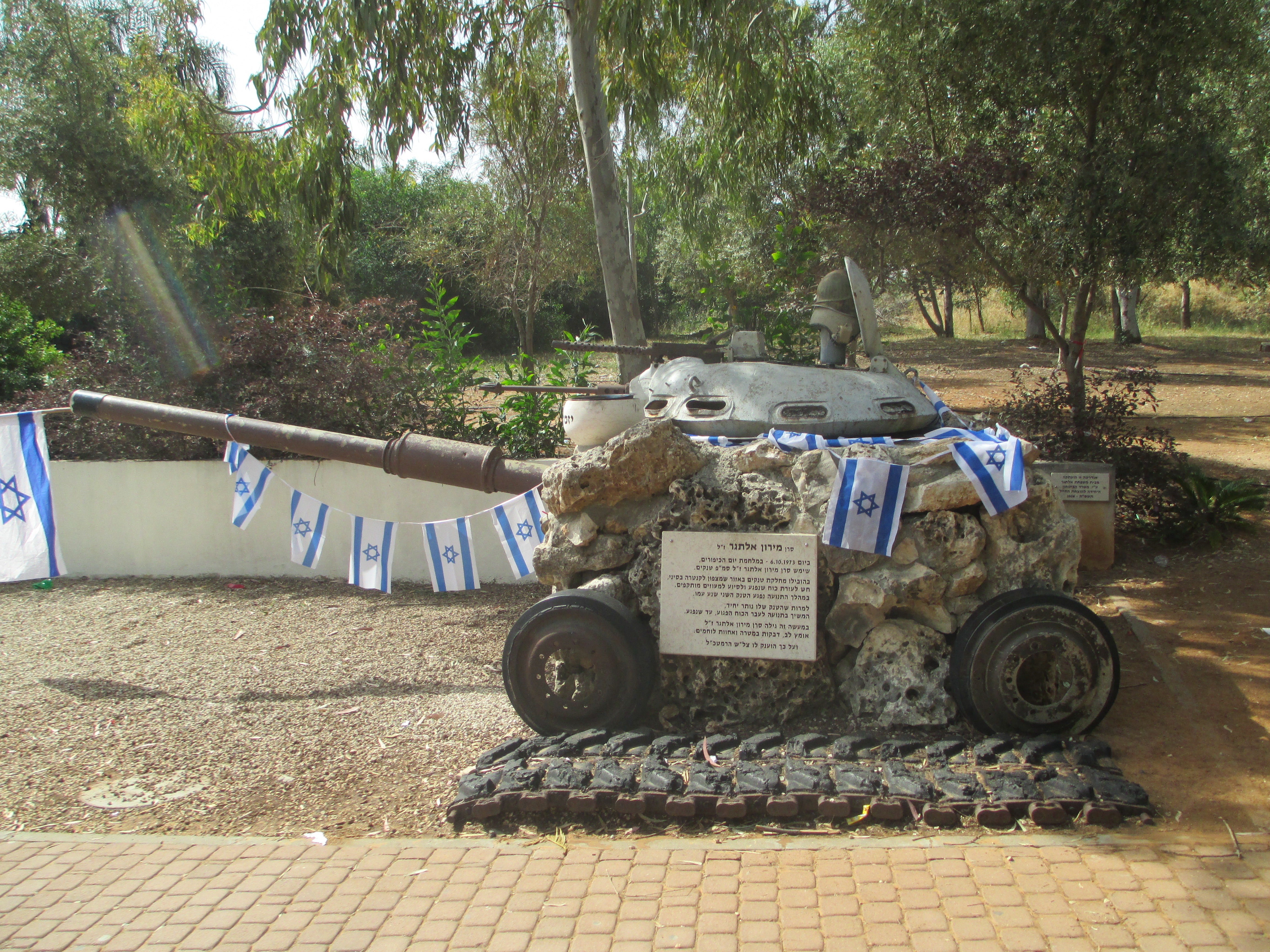 Miron Altagar memorial in Kiryat ono